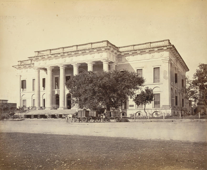 Photograph of the Town Hall from 'Views of Calcutta and Barrakpore' taken by Samuel Bourne in the 1860s. Located on the Esplanade, the Town Hall was built in 1813, east of the High Court, by Colonel John Garstin. This view of the main facade shows the classical style and the Doric portico. The Town Hall overlooks Eden Gardens in the Maidan.